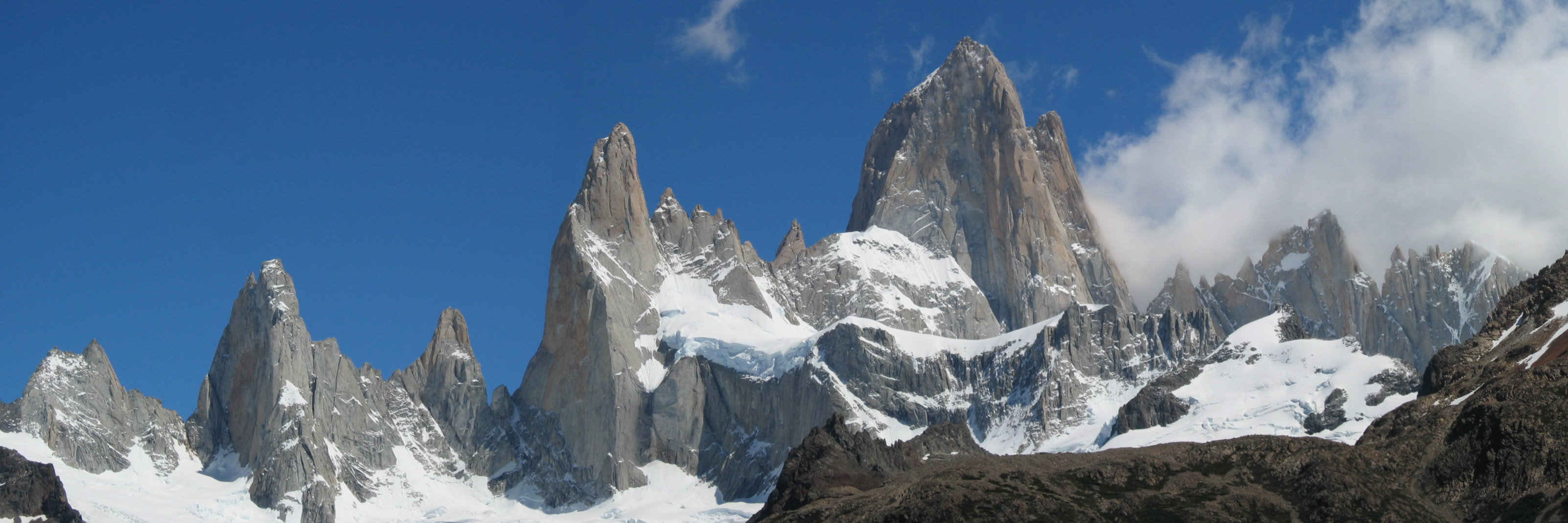 Fitz Roy and neighbour mountains, Argentina